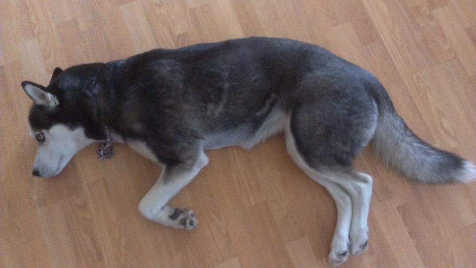 Husky lying on the ground